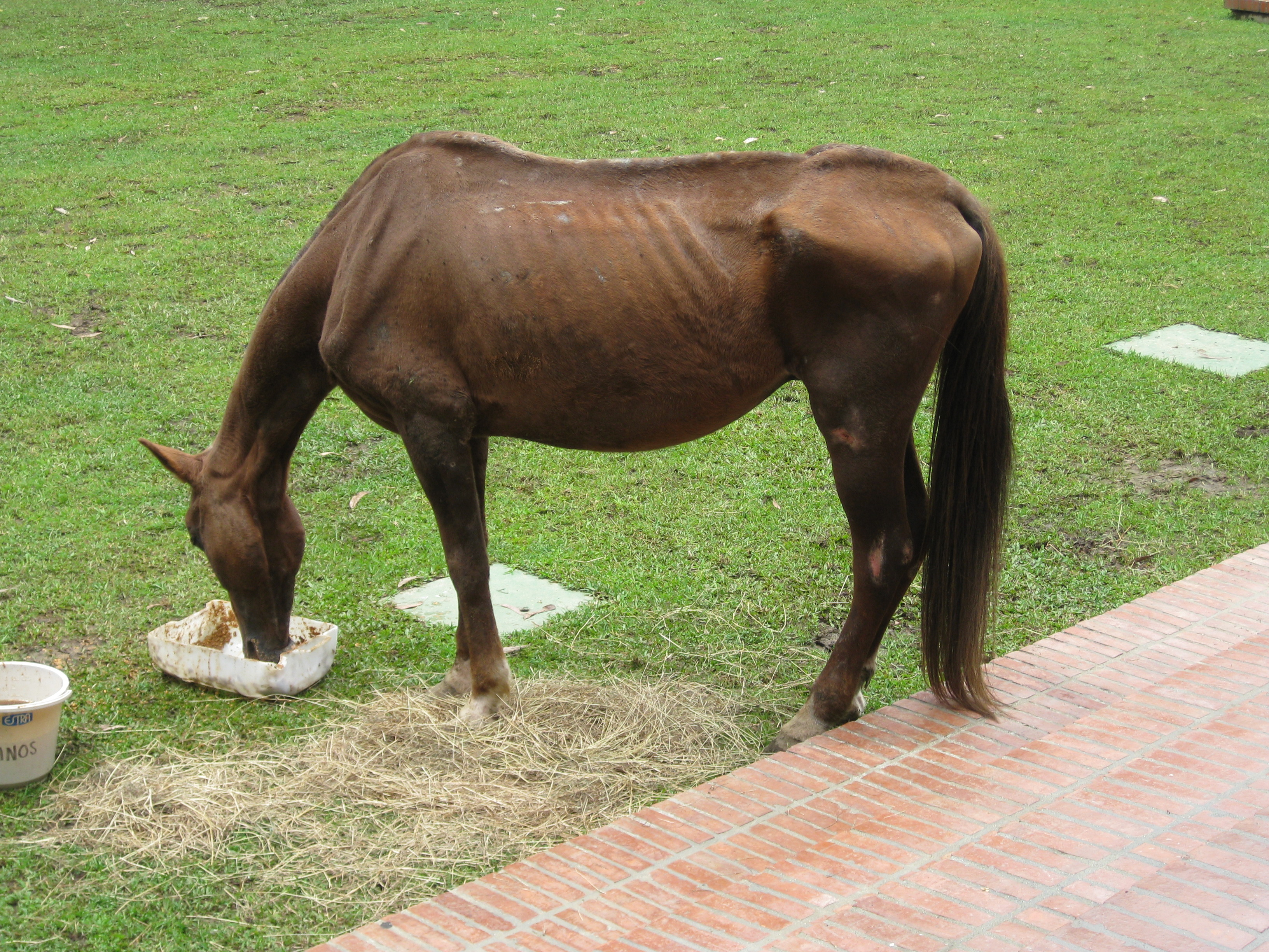 I found this horse at the CES Veterinary Clinic in Envigado Colombia.